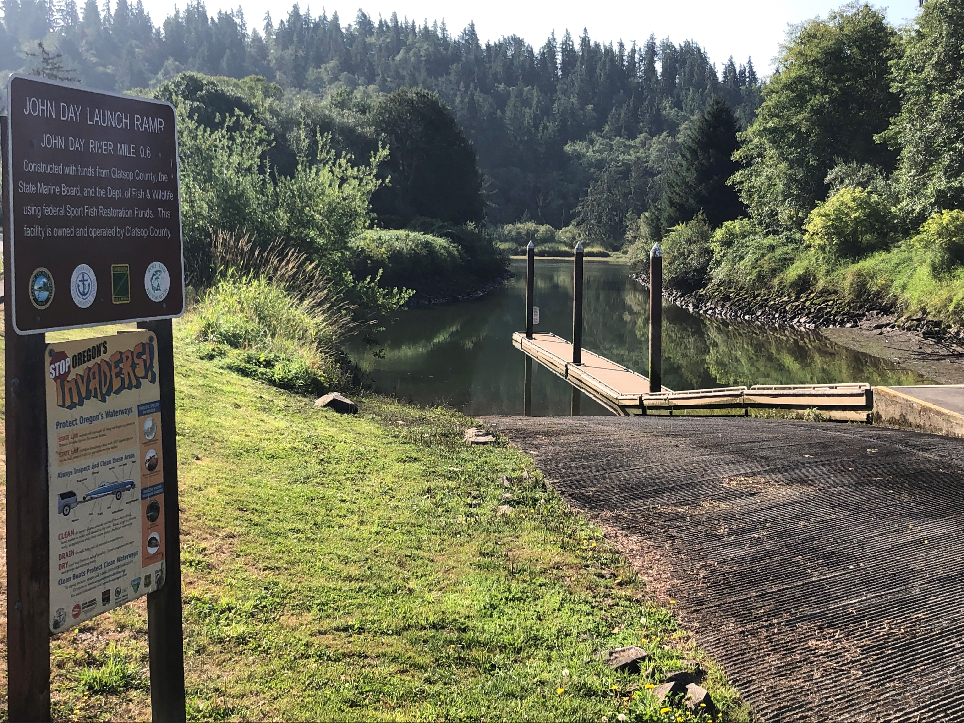 Boat launch into the John Day River (northwestern Oregon)